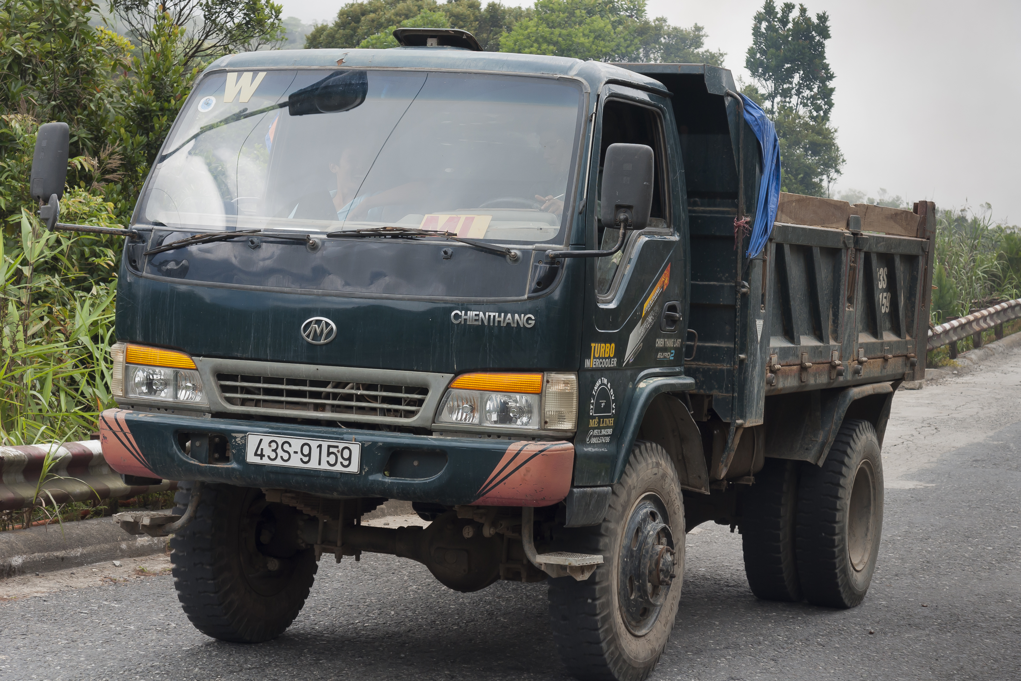 Ba Na Hills, Da Nang, Vietnam: A CHIEN THANG 3.45T light truck, produced by vietnamese Chien Thang Auto Co. Ltd., Hai Phong